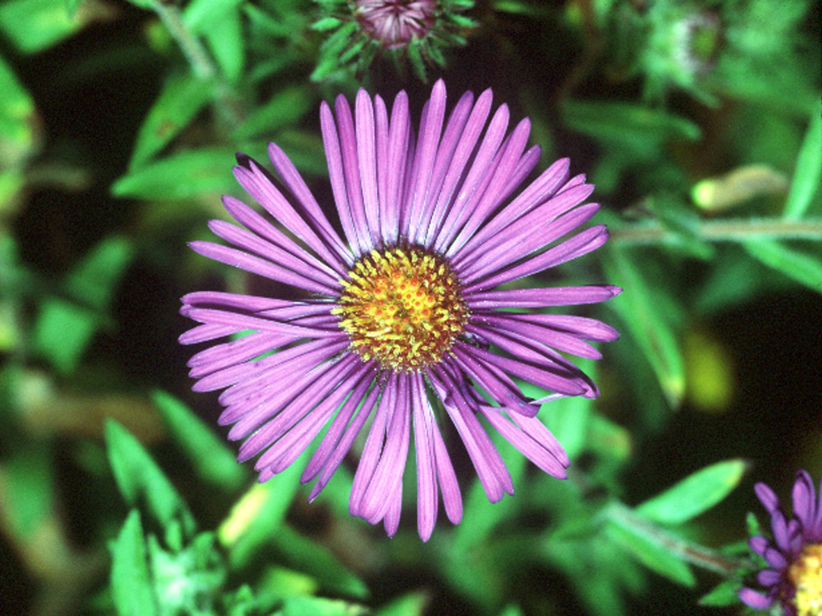 Symphyotrichum novae-angliae (L.) G.L.Nesom (syn. Aster novae-angliae L.) - New England aster